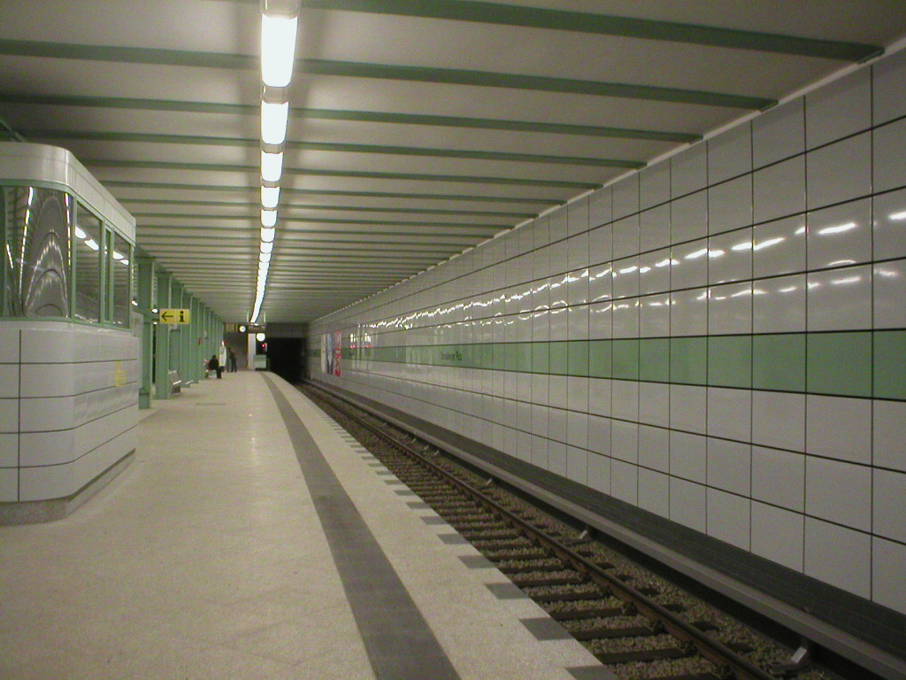 the Berlin U-Bahn station Strausberger Platz, line U5, Germany